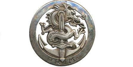 Beret insignia of the 9th Marine Infantry Regiment.